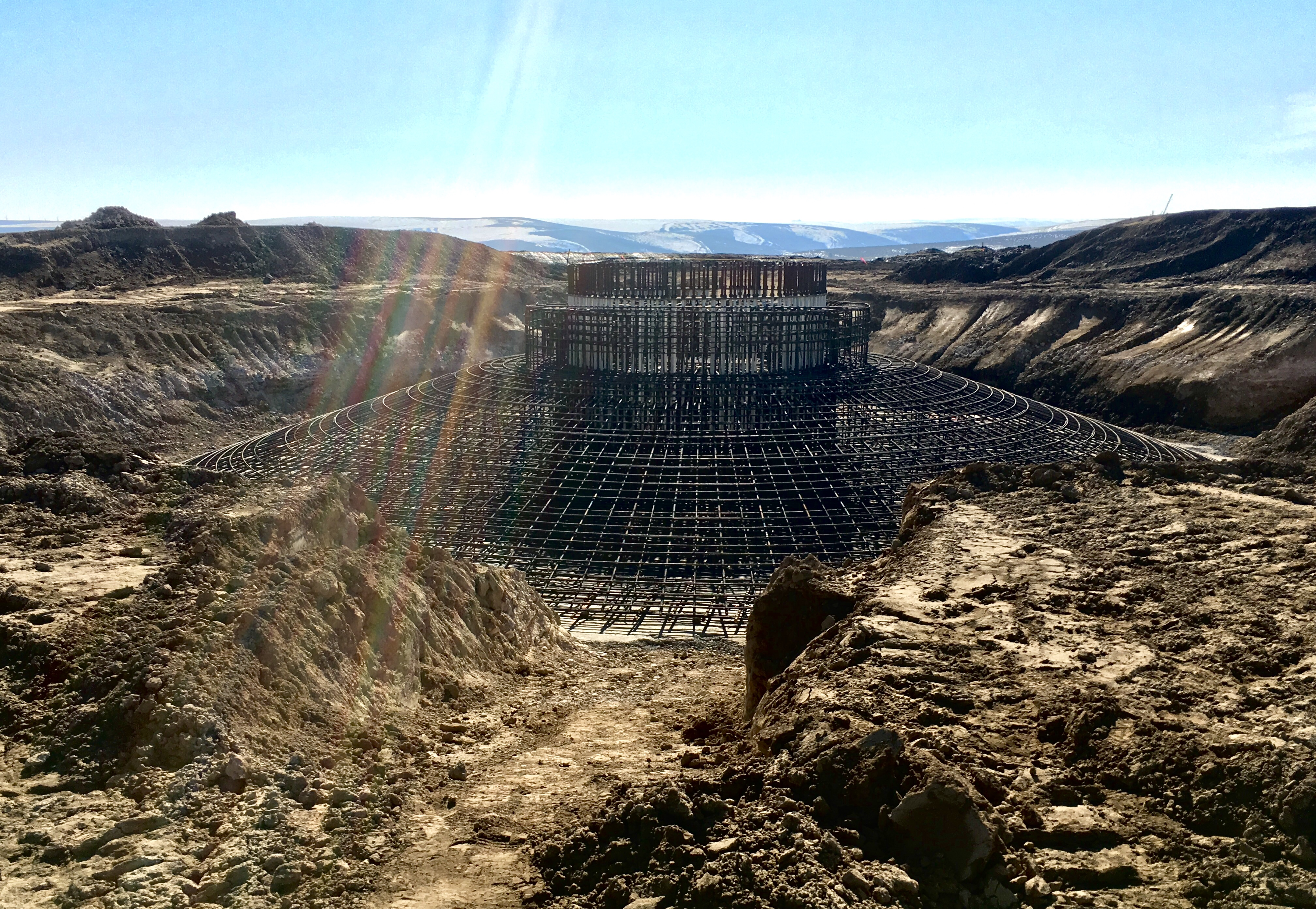 Foundation rebar of a wind turbine for the Montague Wind Power Project in Gilliam County.